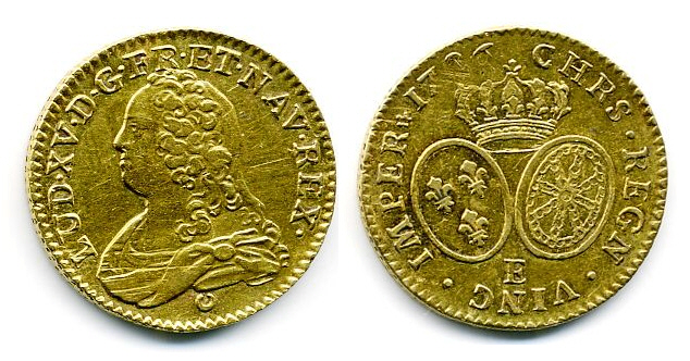 Gold coin "Louis" with french king Louis XV